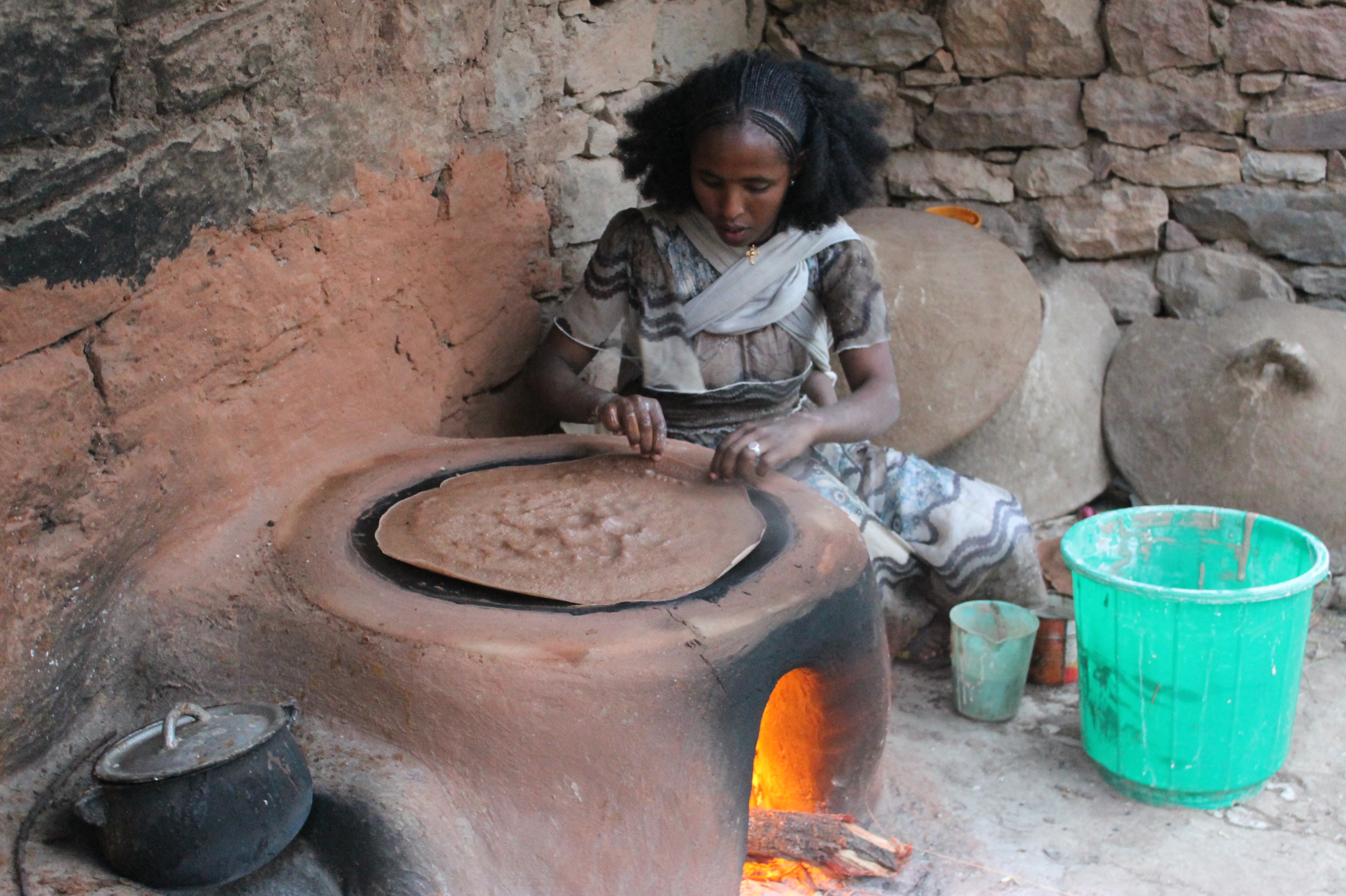 Woman cooking injera in her house (Gheralta, Tigrai)